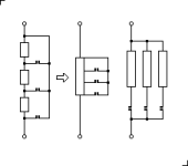 Electric motors